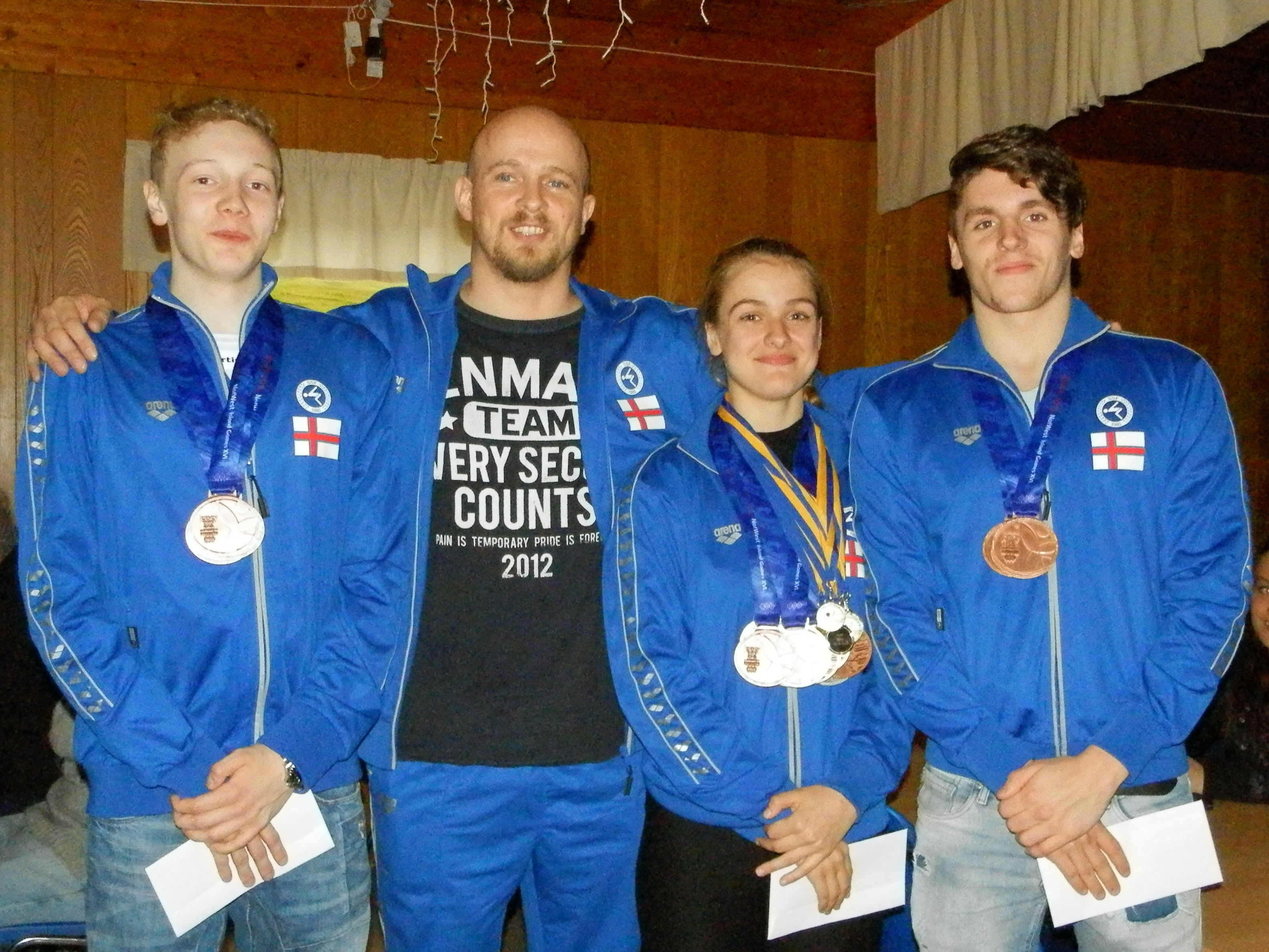 Three young Faroese swimmers and their couch Jón Bjarnason. The swimmers are Róland Toftum, Sára Ryggshamar Nysted and Eyðbjørn Joensen (Pál Joensen's younger brother). The all won medals at the Island Games, Sára won four gold in individual events at the Island Games in swimming and a few days later she won five gold and one silver medals at the Nordic Youth Championship in Swimming 2015 in Sweden, which is record for a Faroese swimmer.